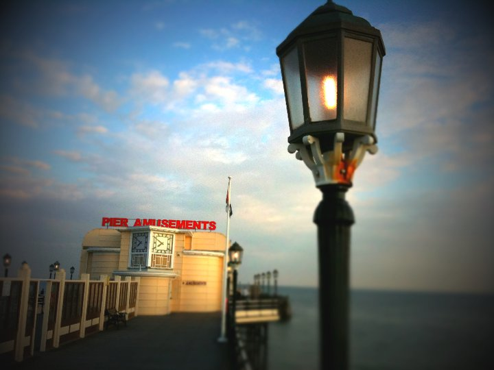 Worthing Pier in West Sussex, UK